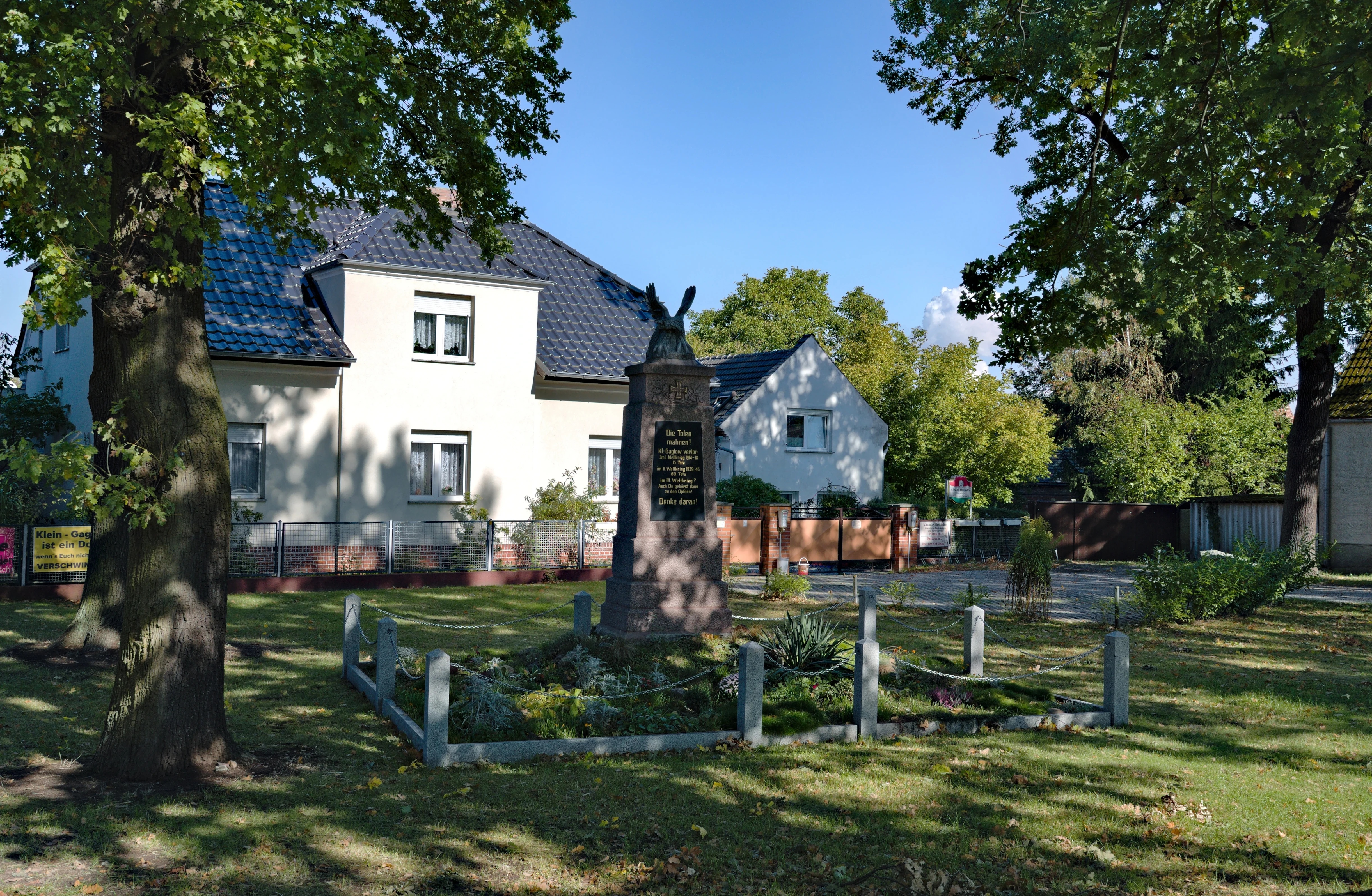 Kriegerdenkmal Klein Gaglow, street am Denkmal. It is dedicated to both World Wars.Freedom of panorama applies.